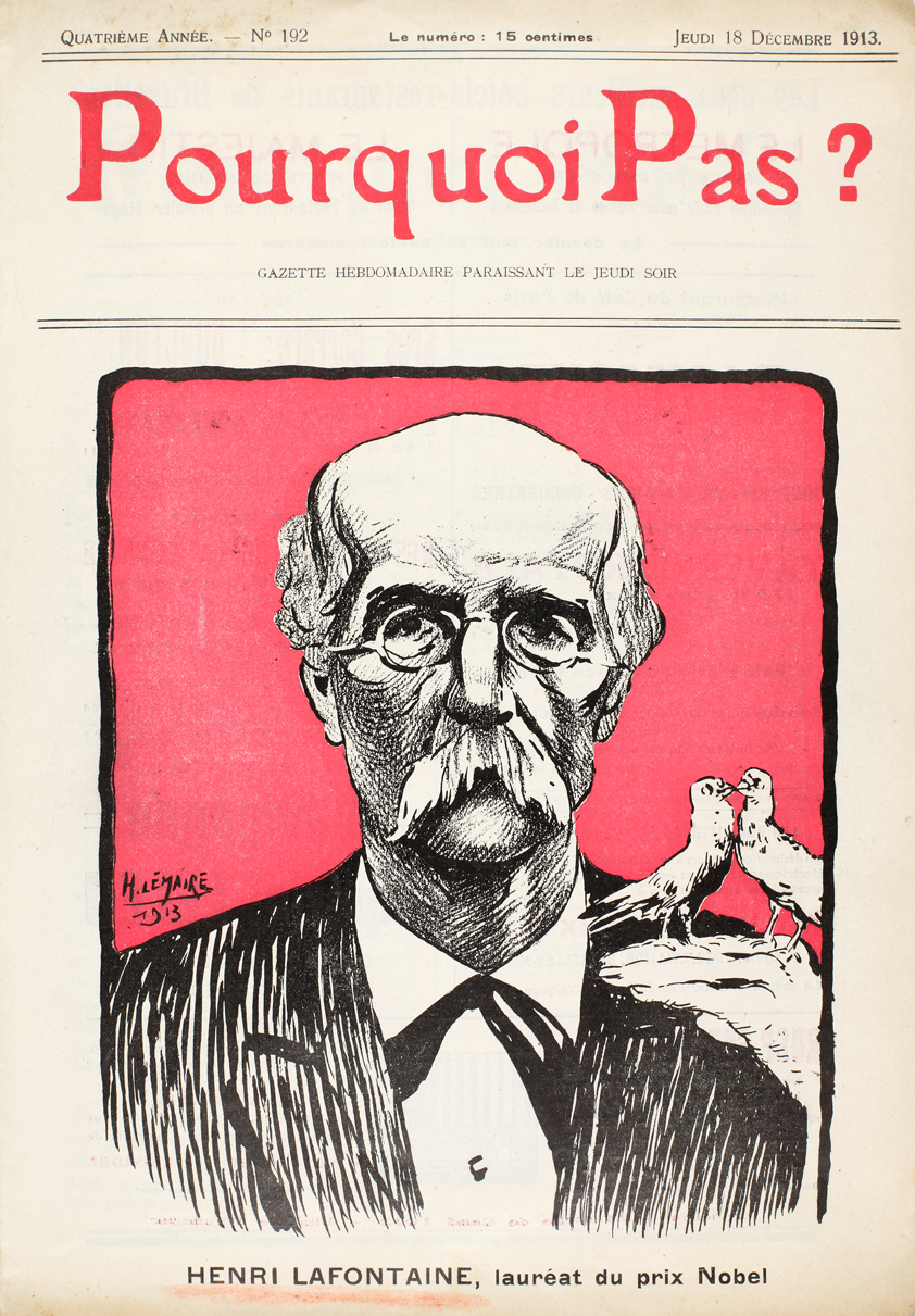 Front cover of issue of 18 December 1913 of the periodical Pourquoi pas? published after the announcement of the Nobel Peace Prize to Henri La Fontaine